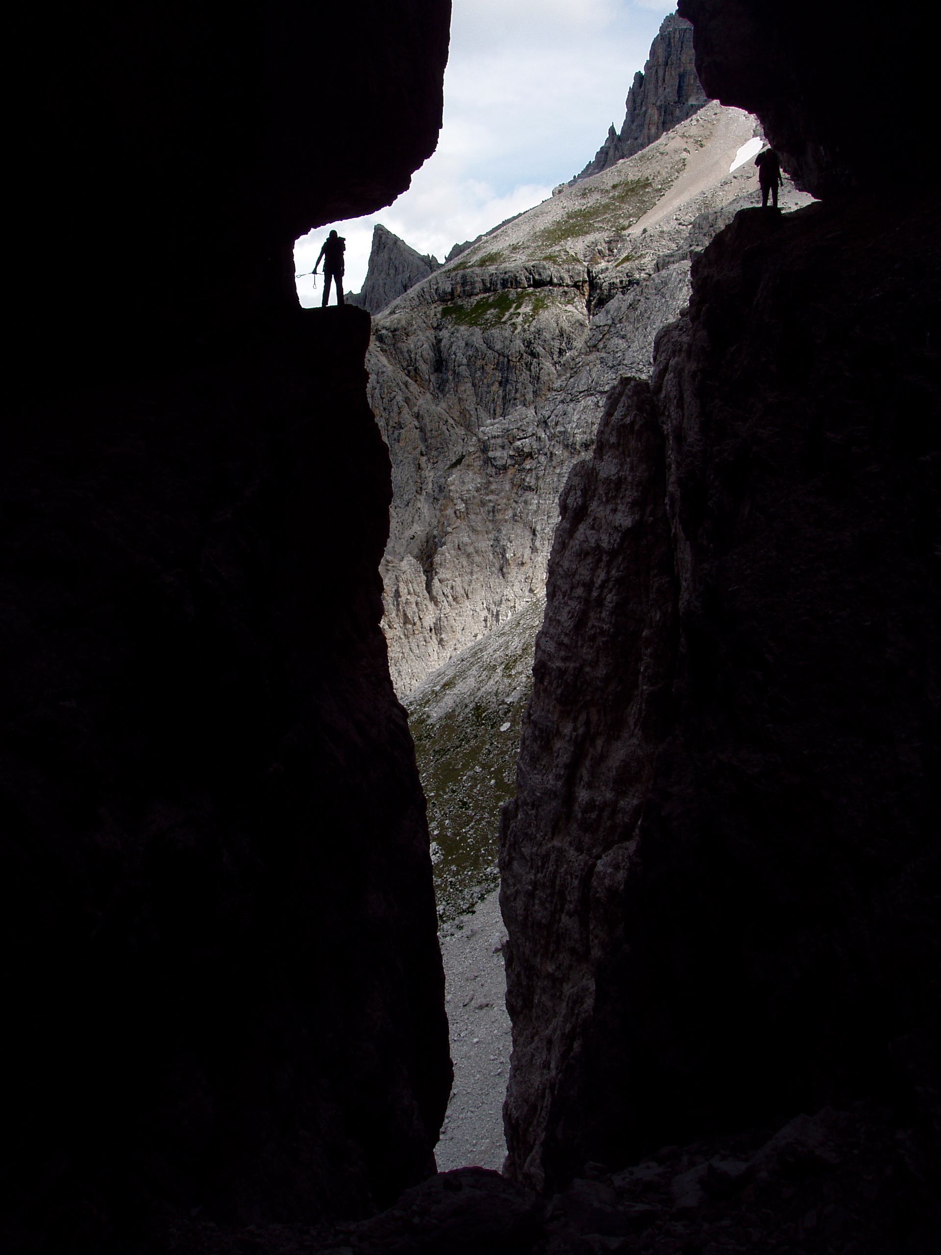 The Alpini-Steig, a via ferrata in the Dolomites of Sexten (Elferkofel), offers interesting compositions for photographers.